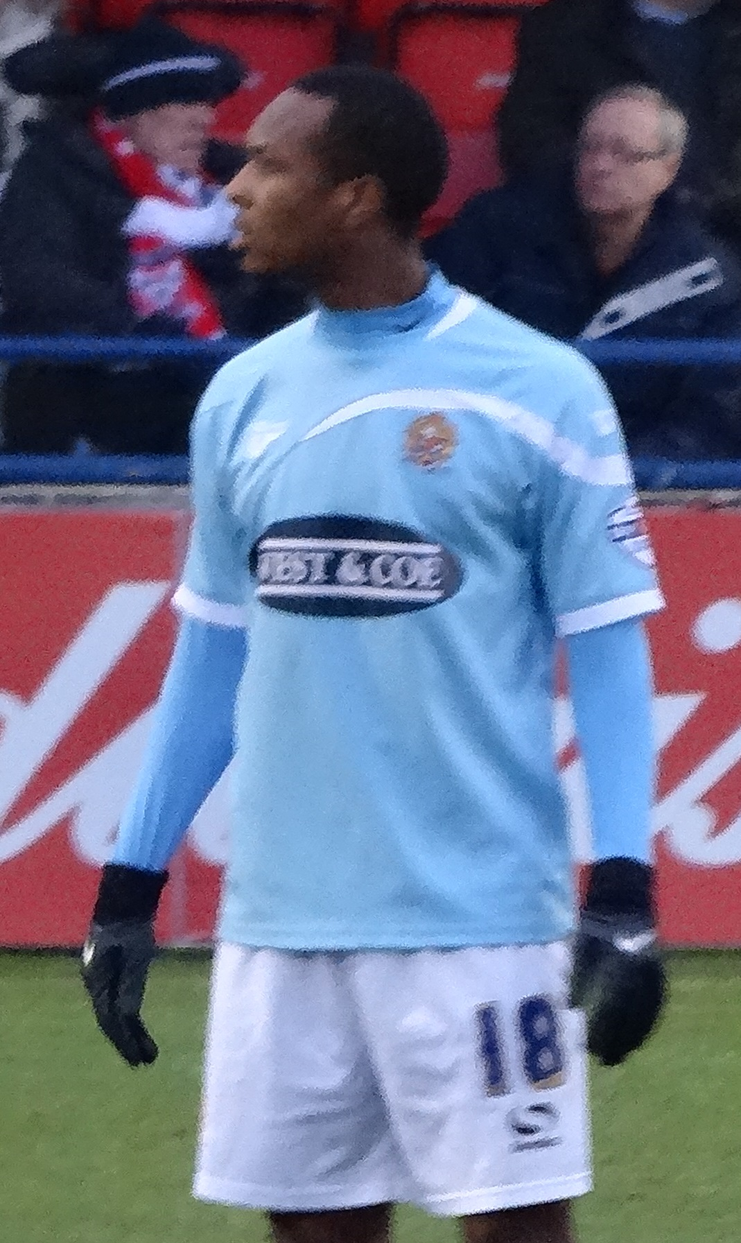 Gavin Hoyte.